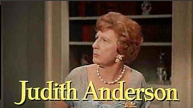 Screenshot of Judith Anderson from the trailer for the film Cat on a Hot Tin Roof (film)